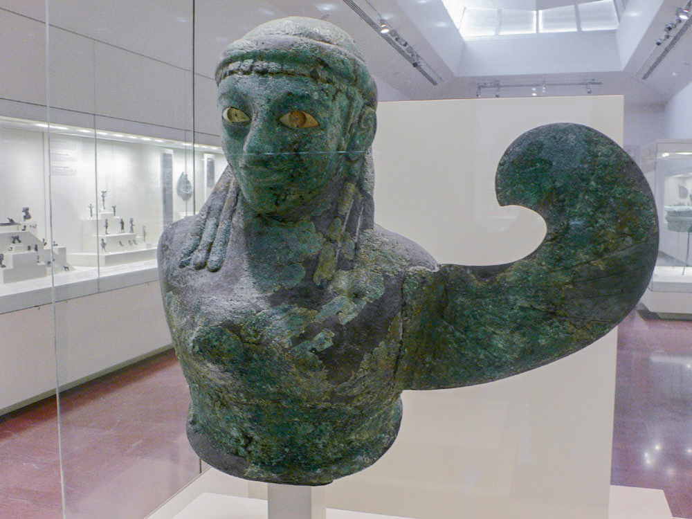 Bronze female winged figure. 590-580 B.C. Archaeological museum of Olympia.